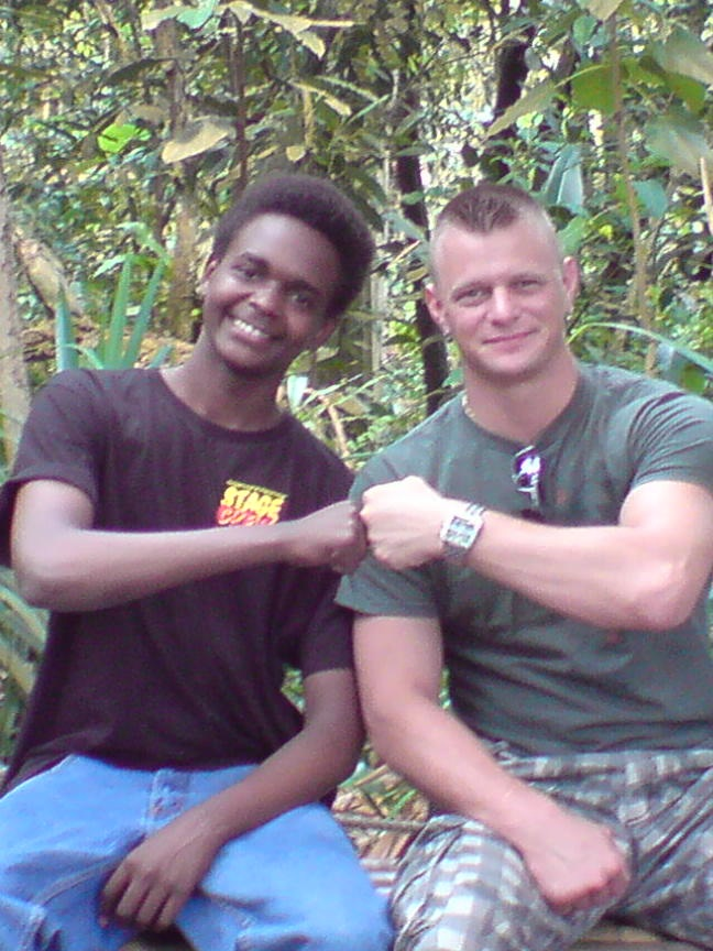 Daniel Bossard and his Brother Bruno Ndiritu